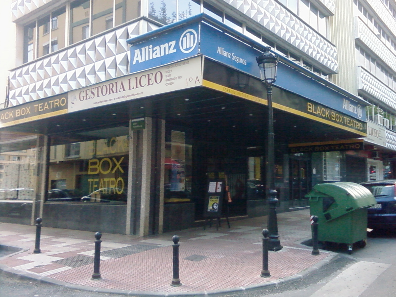 Black Box Theatre, Marbella, Málaga, Spain